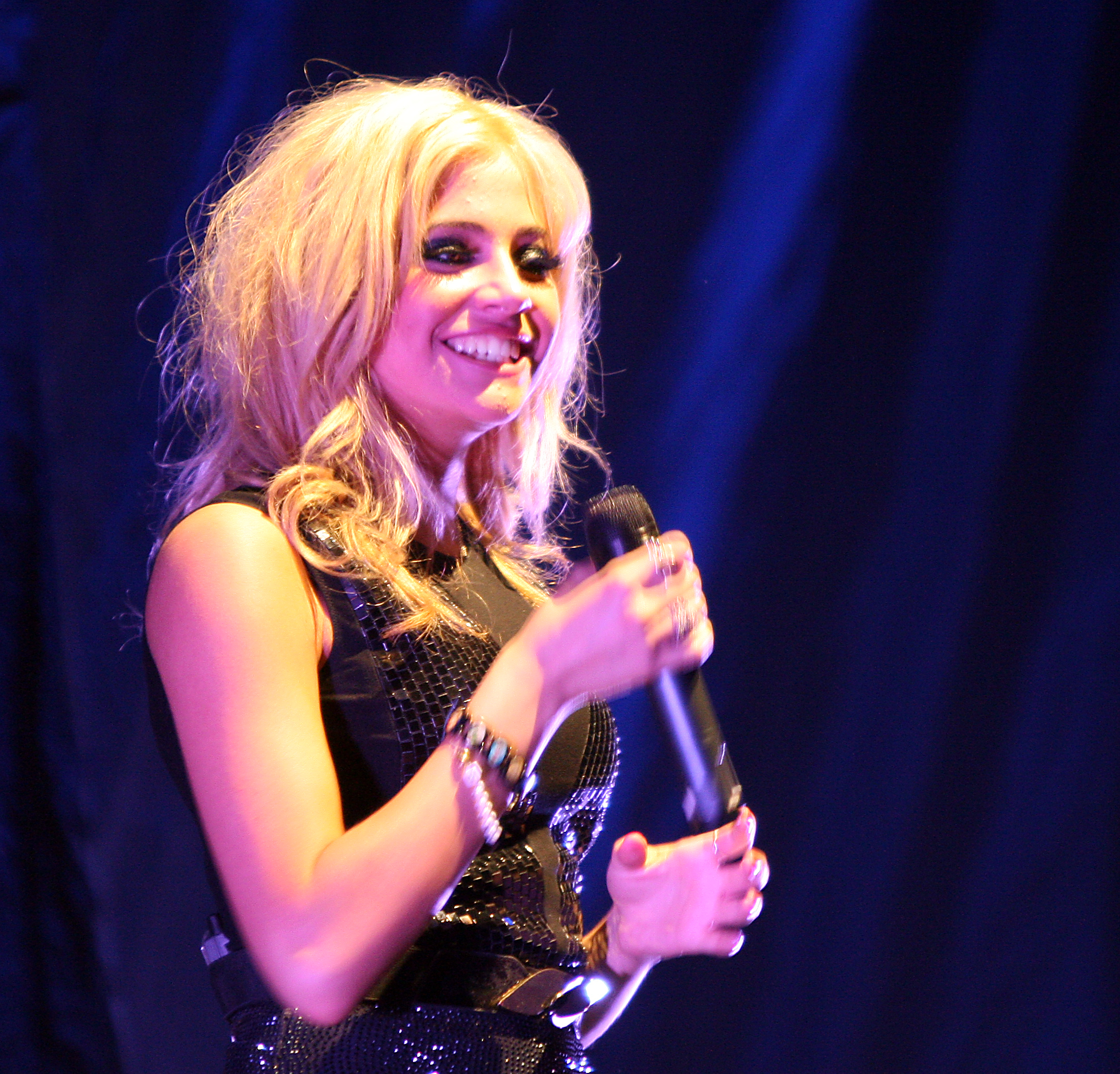 Pixie Lott performing live in 2009.